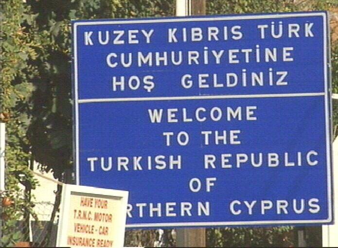 Sign at the Cypriot-Cypriot "border" towards the Turkish part.